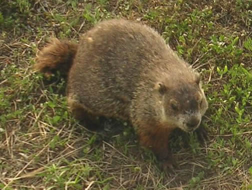 A cropped version of Image:Doggroundhog.jpg. This is in the Public Domain because the original was as well.